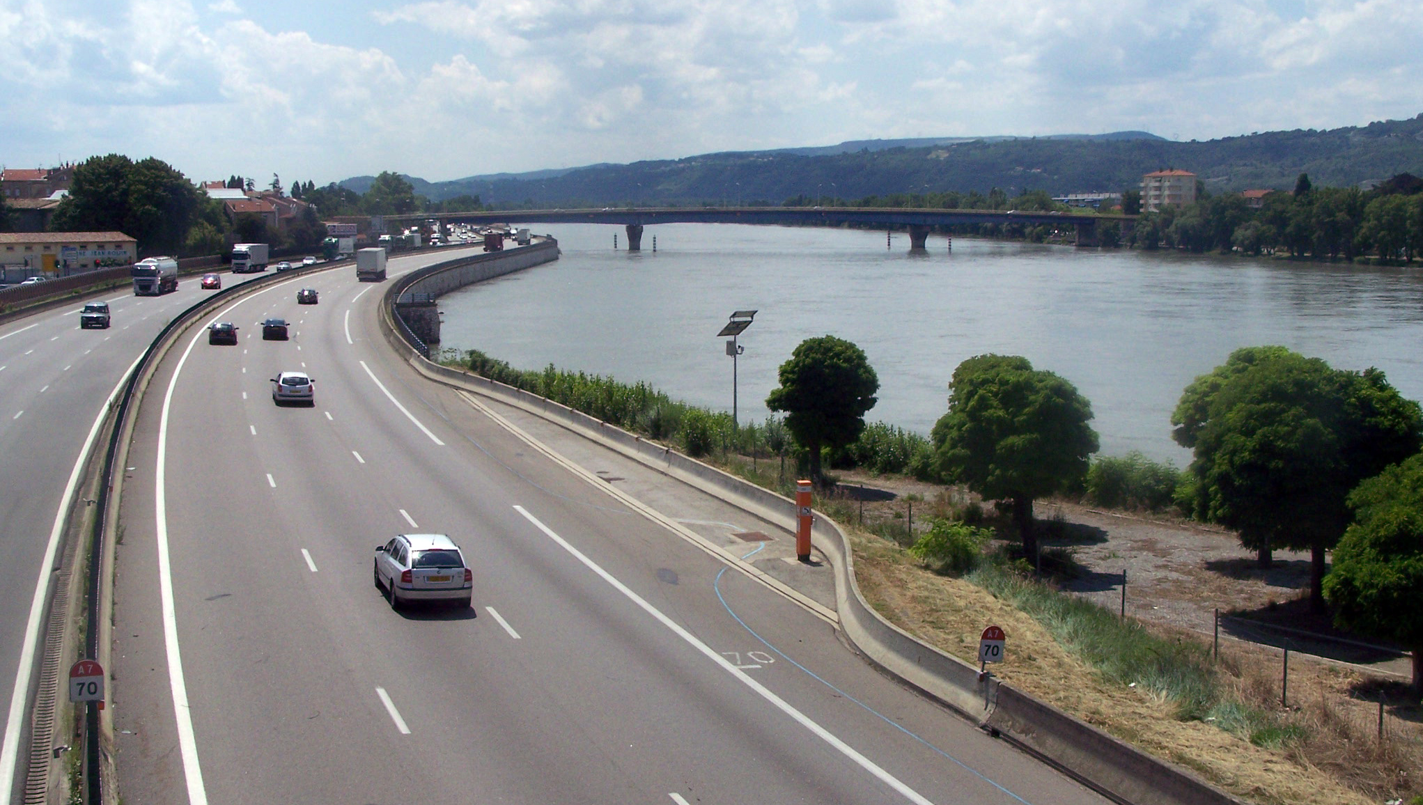 Sight of the French A7 motorway, here bordering the Rhône river (right) and the city of Valence (left).